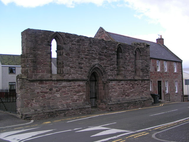 Maison Dieu Maison Dieu (House of God) was a medieval hospital founded by William de Brechin. It was not a hospital in the modern sense where people were looked after when sick, but it was a place to give shelter to poor or old people who could no longer look after themselves. It housed a master and chaplains who prayed for the soul of the founder as well as the poor folk it sheltered.